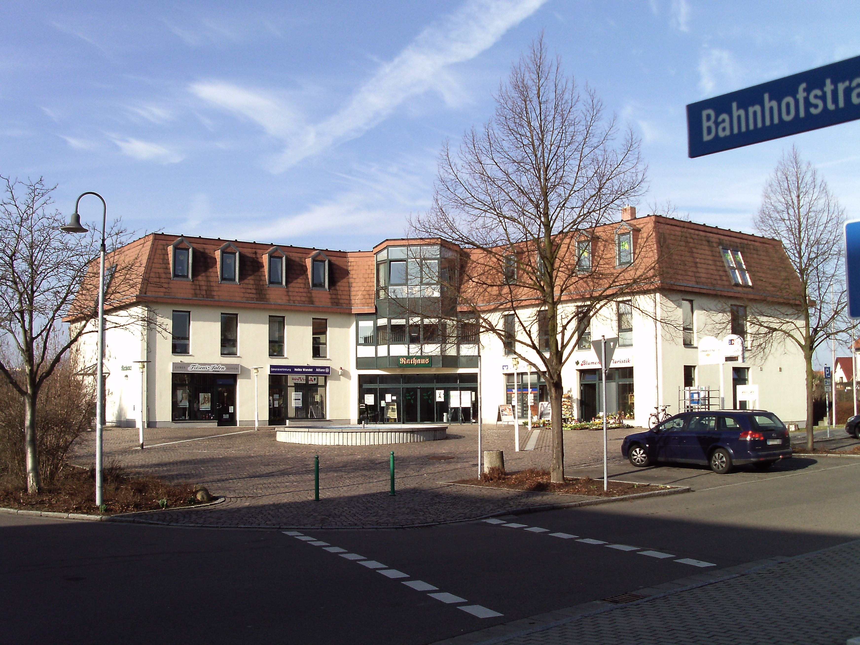 Bennewitz town hall (Leipzig district, Saxony), built in 1994